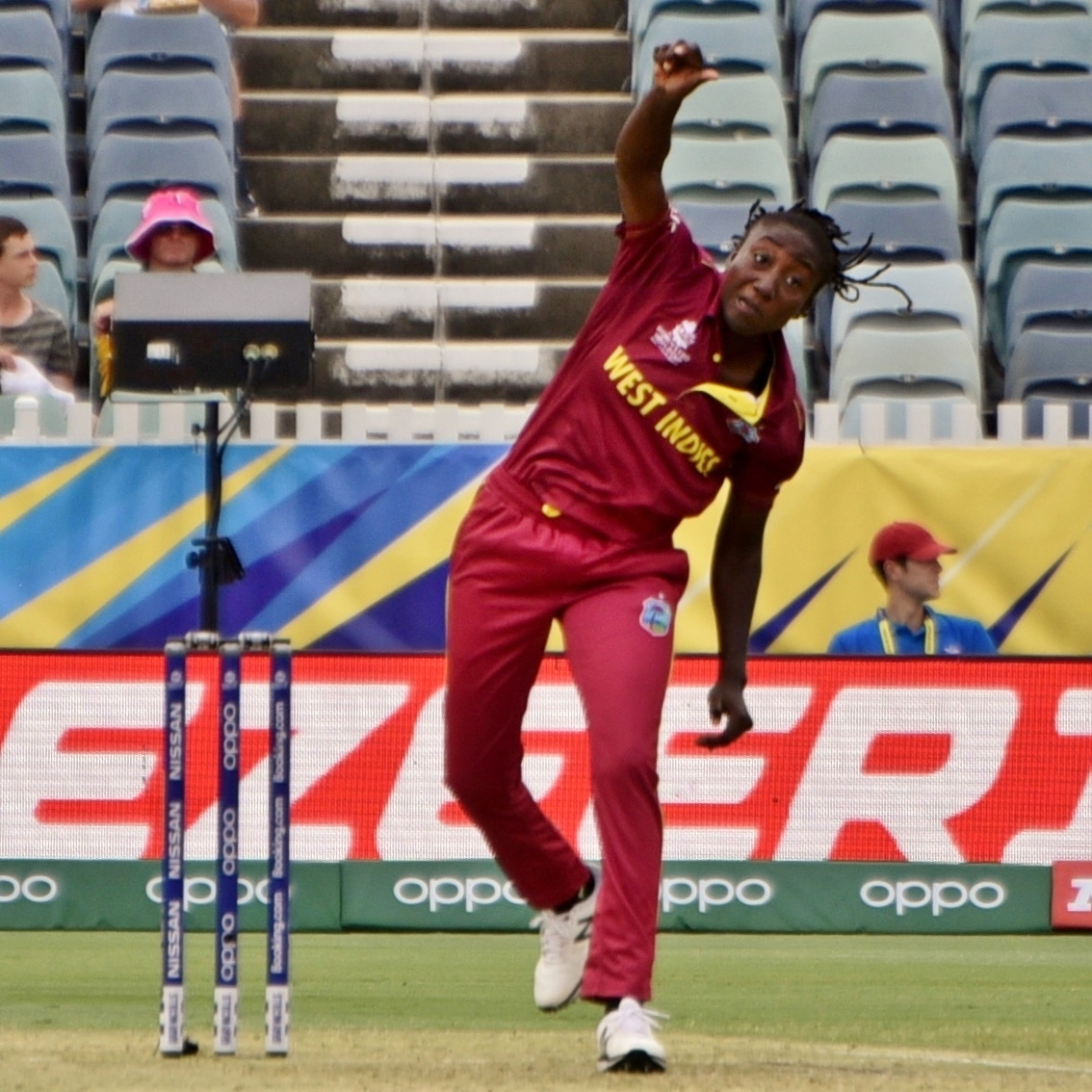 Stafanie Taylor bowling for the West Indies against Thailand during their 2020 ICC Women's T20 World Cup match at the WACA Ground in Perth, Australia